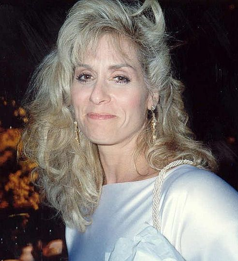 Judith Light at the Governor's Ball following the 41st Annual Emmy Awards, 9/17/89